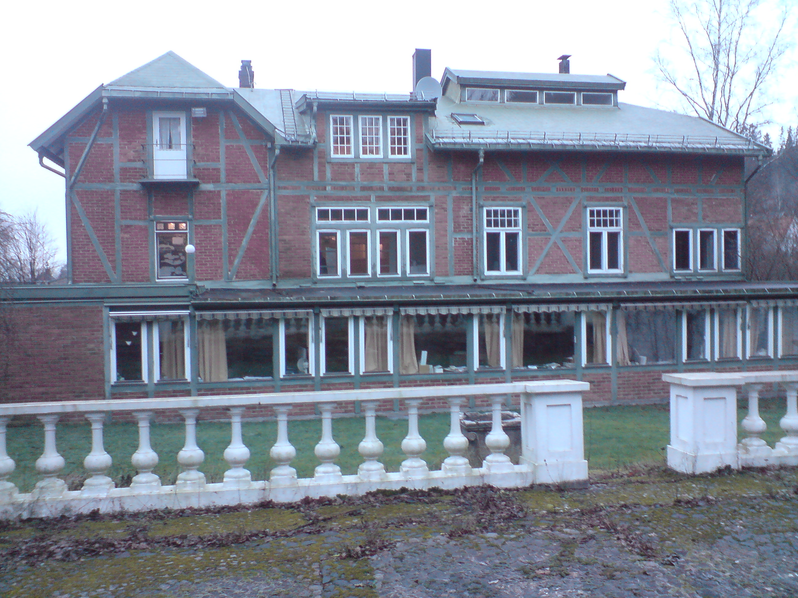 Christinedal, Harry Fetts house in Oslo